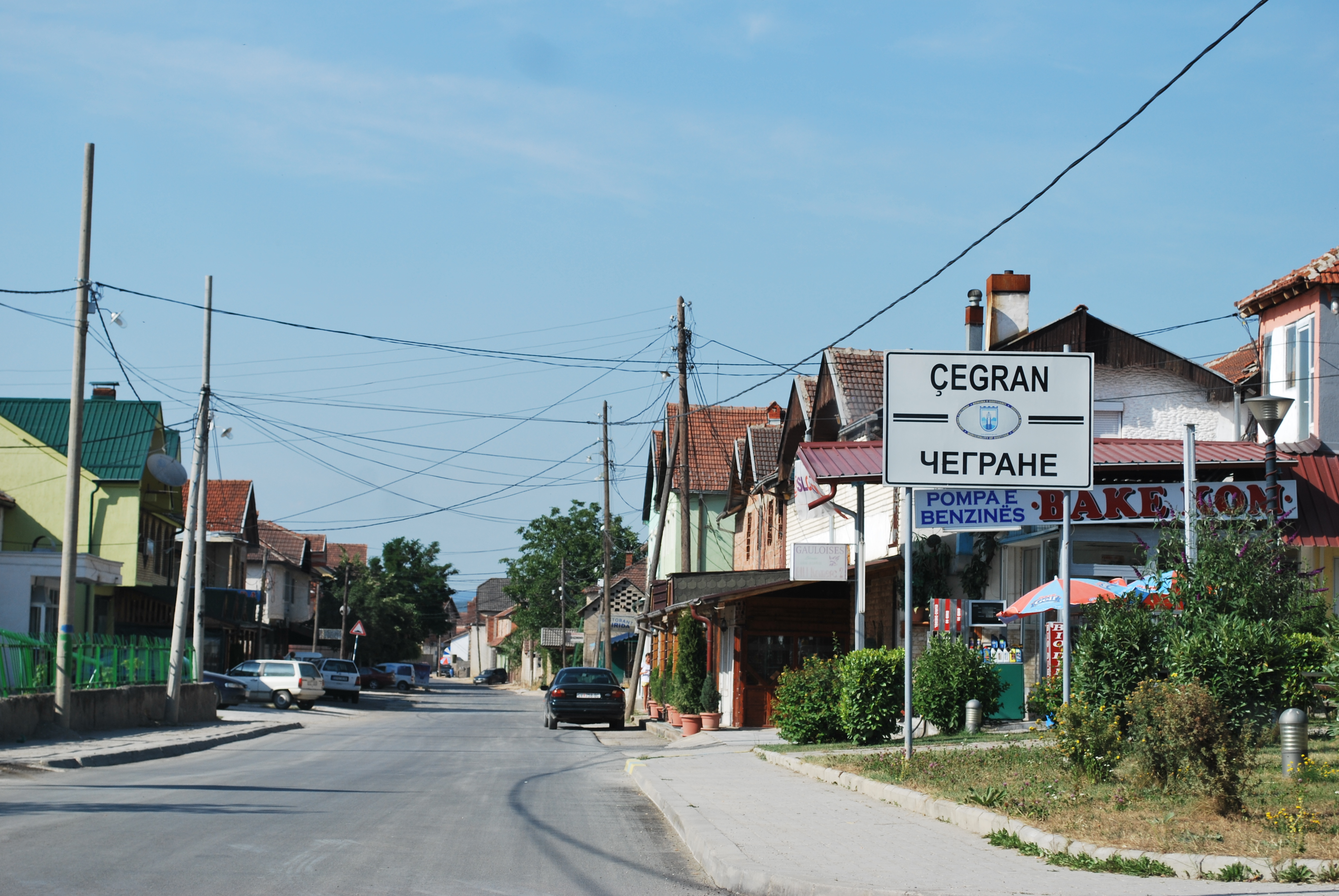 Čegrane near Gostivar, Macedonia